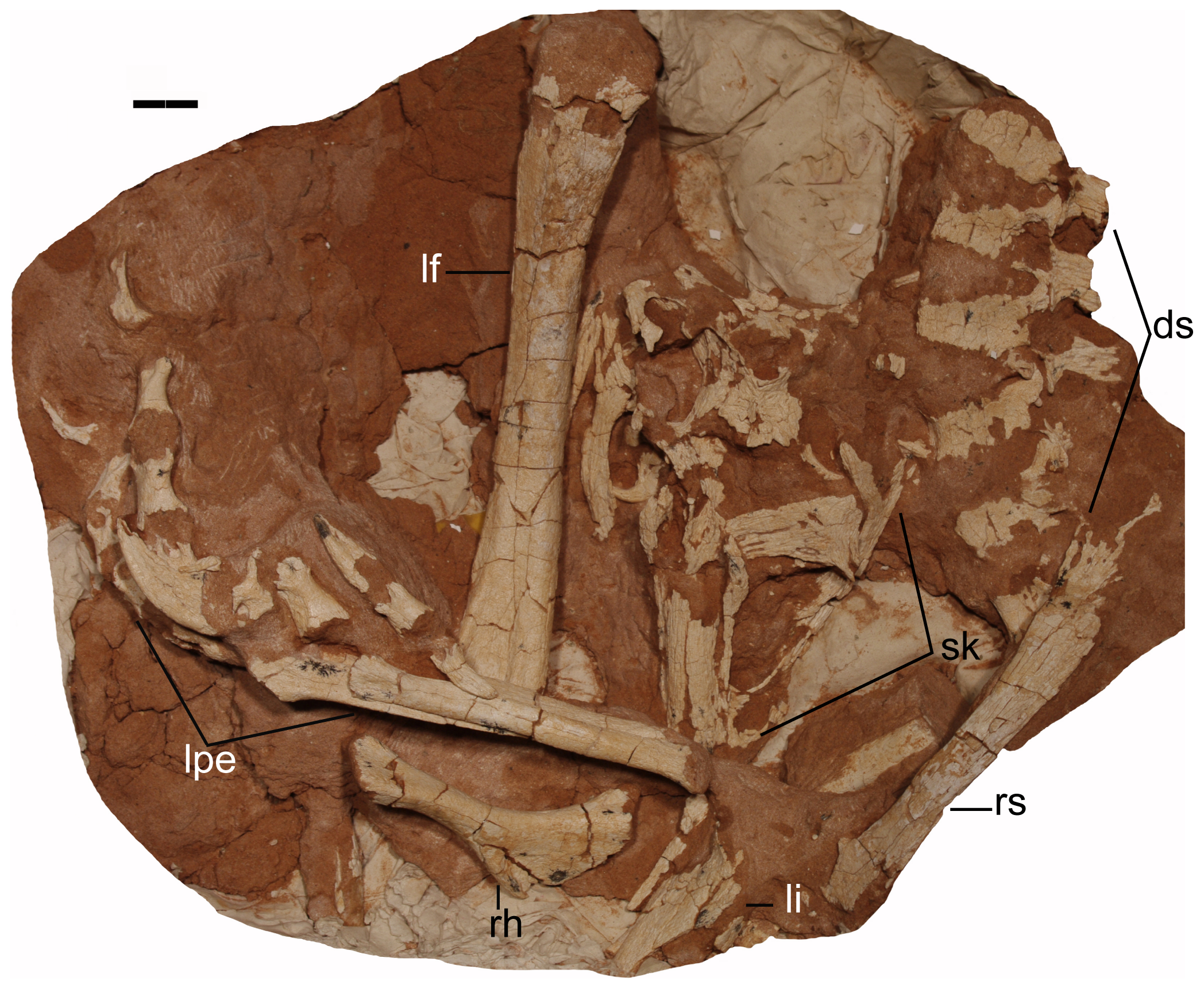 Holotype of Linhevenator tani (LH V0021). Abbreviations: ds, dorsal series; lf, left femur; li, left ischium; lpe, left pes; rh, right humerus; rs, right scapula; sk, skull. Scale bar equals 20 mm.